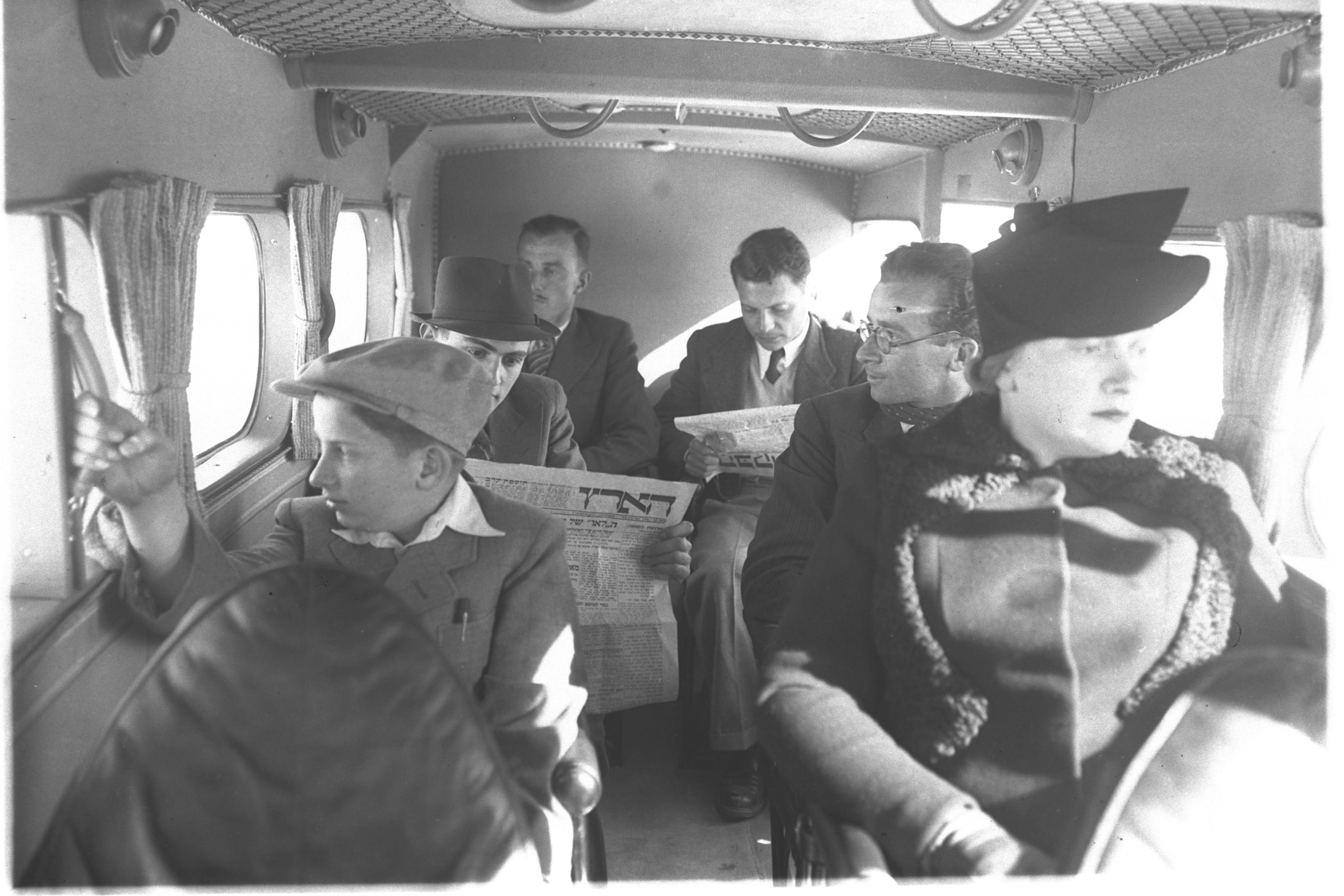 PASSENGERS SEATED IN ONE OF THE PALESTINE AIRWAYS "SCION" PLANES DURING FLIGHT. נוסעים במהלך טיסה של חברת "נתיבי אויר ארץ ישראל".